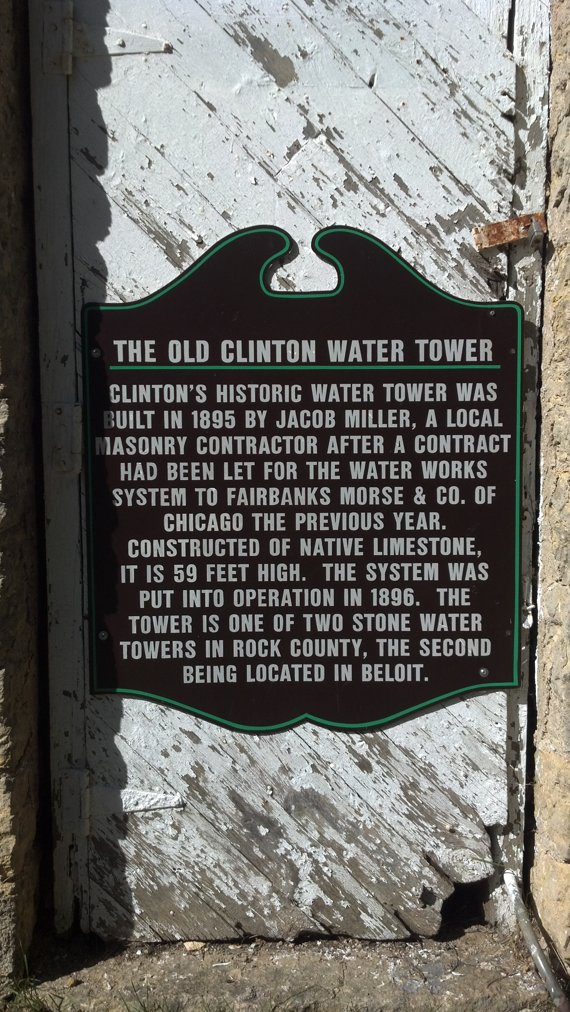 Clinton Village Hall